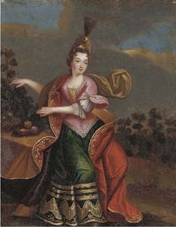 Anne Marie Victoire de Bourbon (11 August 1675 – 23 October 1700) was the daughter of the Prince of Condé and of a Bavarian princess. As a member of the reigning House of Bourbon, she was a Princesse du Sang.